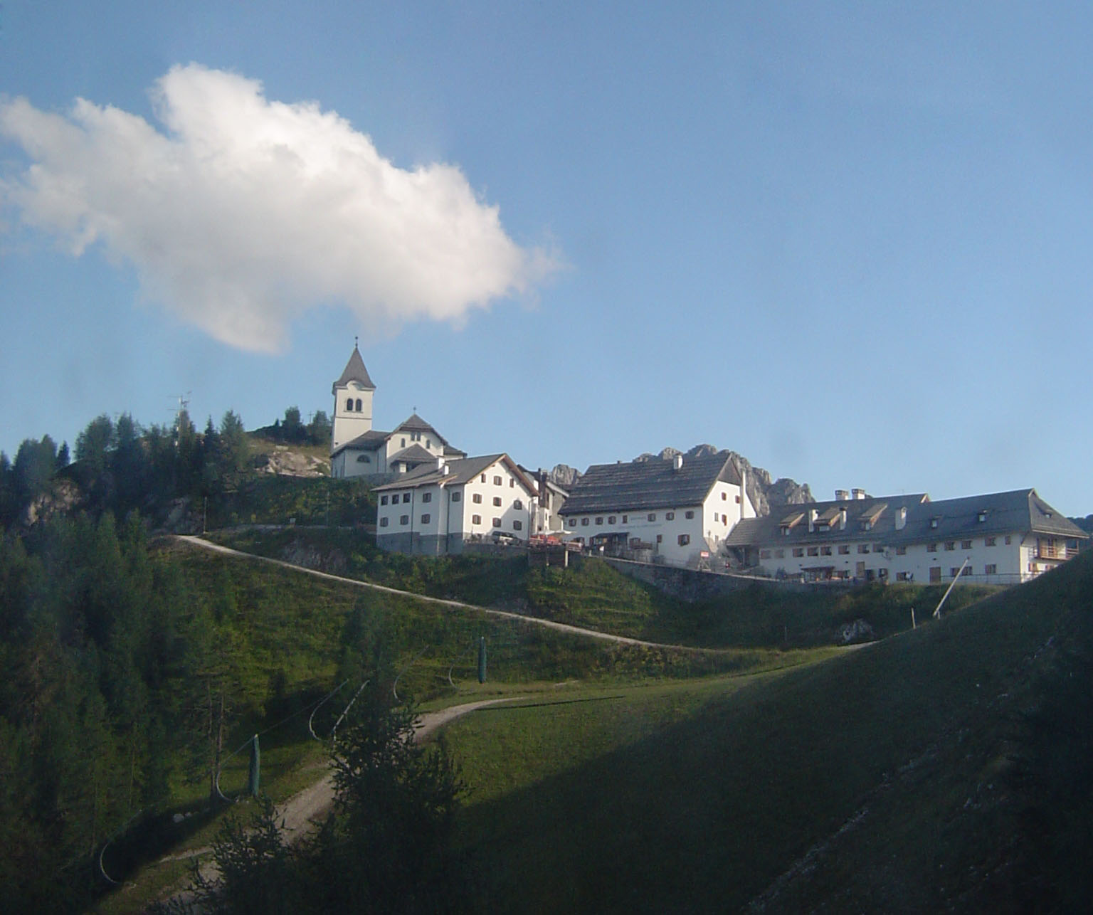 Višarje, village in northern Italy.